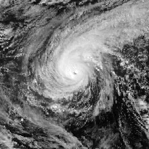 National Climatic Data Center's GIBBS satellite archive image of Typhoon Roy.